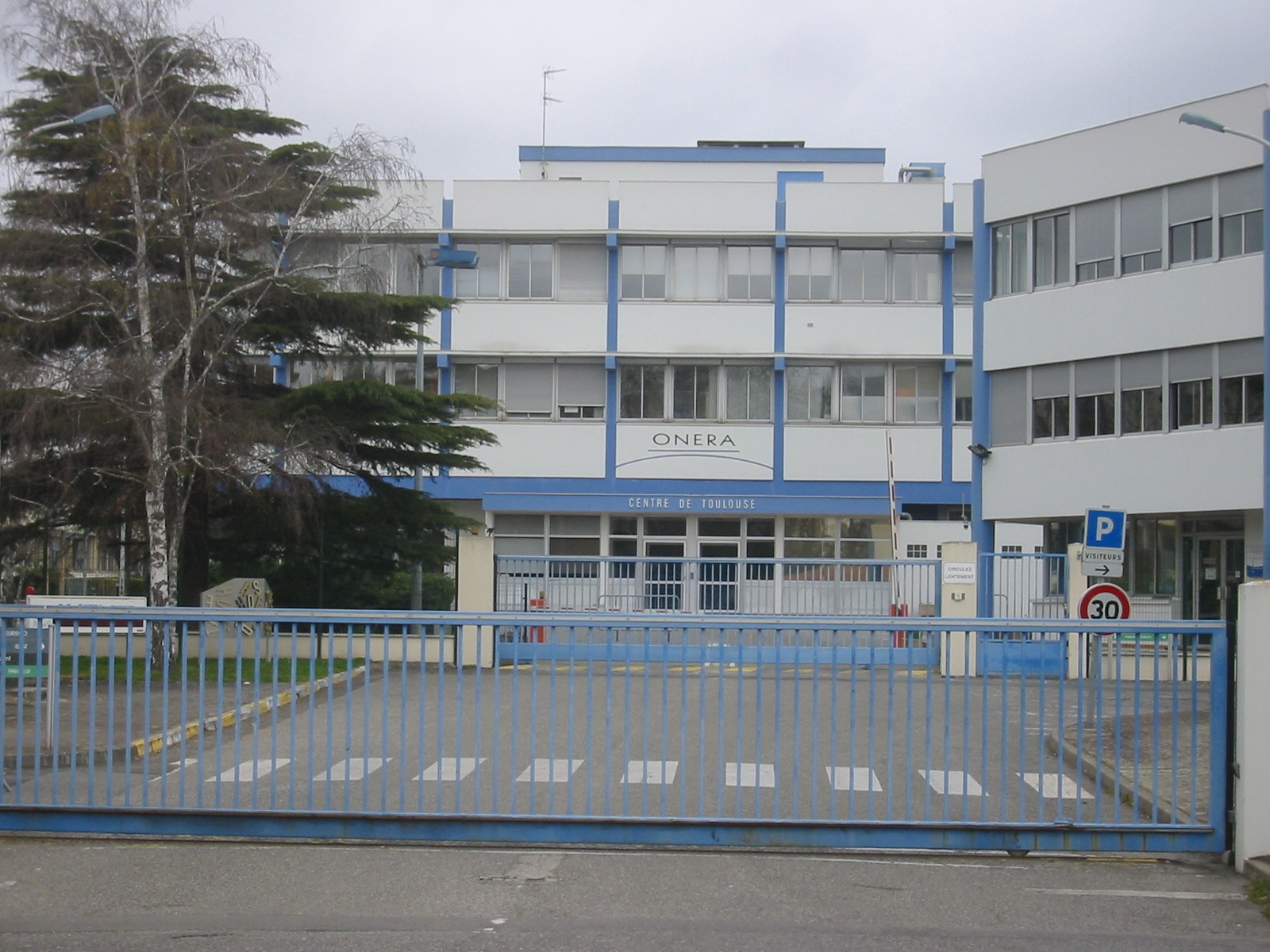 ONERA Toulouse Campus